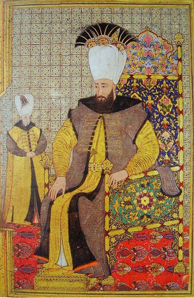 Sultan Ahmed III sitting, next to him the young heir to the throne. Ottoman miniature painting, kept at the Topkapı Sarayı Müzesi, Istanbul (Inv. A 3109, Fol 22v)